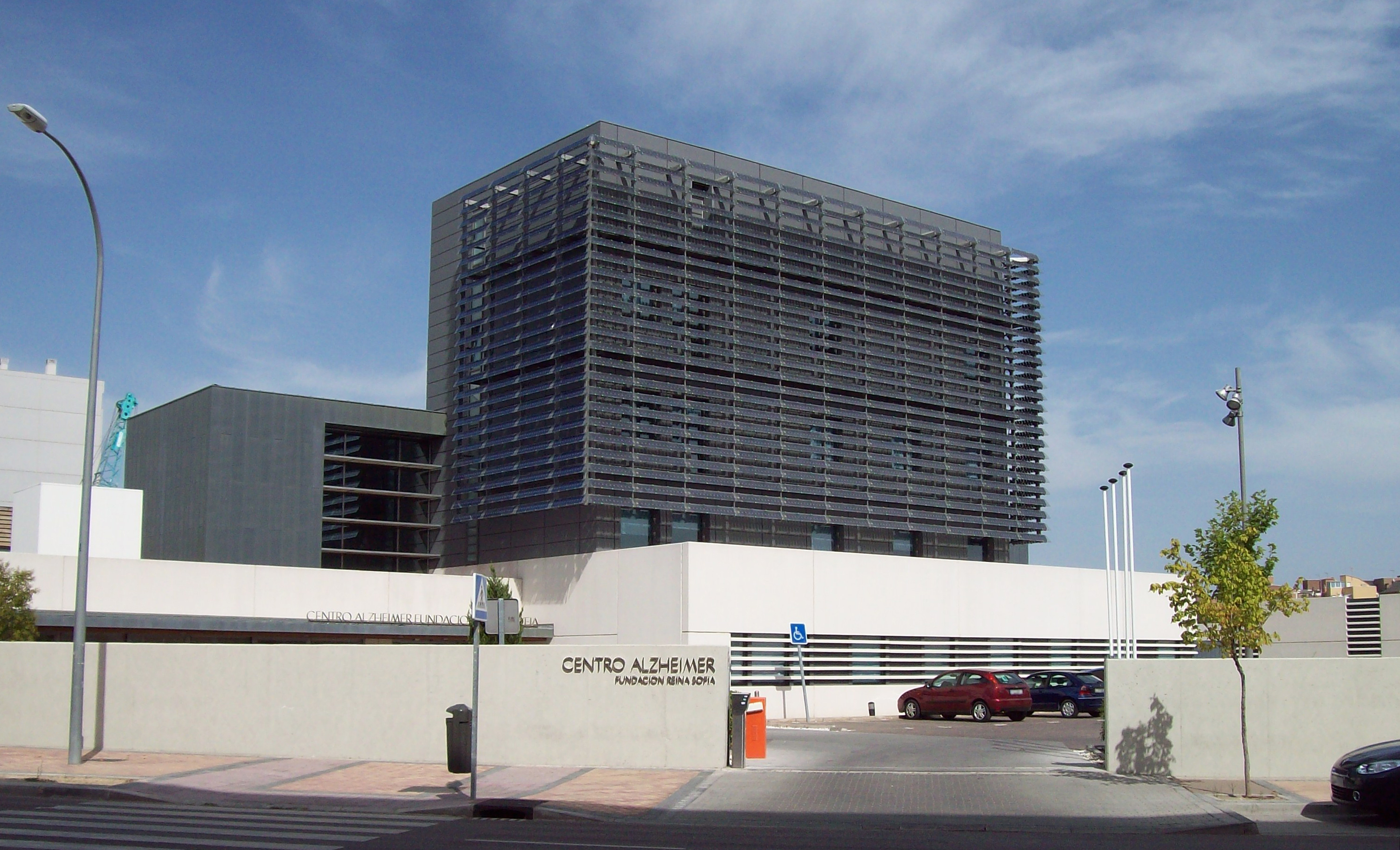 Entrance of Queen Sofía Foundation's Alzheimer Centre, at 5th Calle de Valderrebollo (street) in Villa de Vallecas district in Madrid (Spain). Building was projected by Estudio Lamela firm and built from 2004 to 2006.